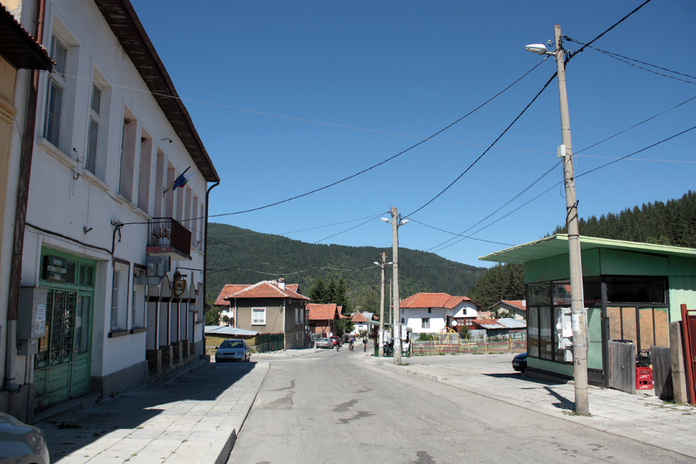 Center of Mala Tsarkva village, Bulgaria